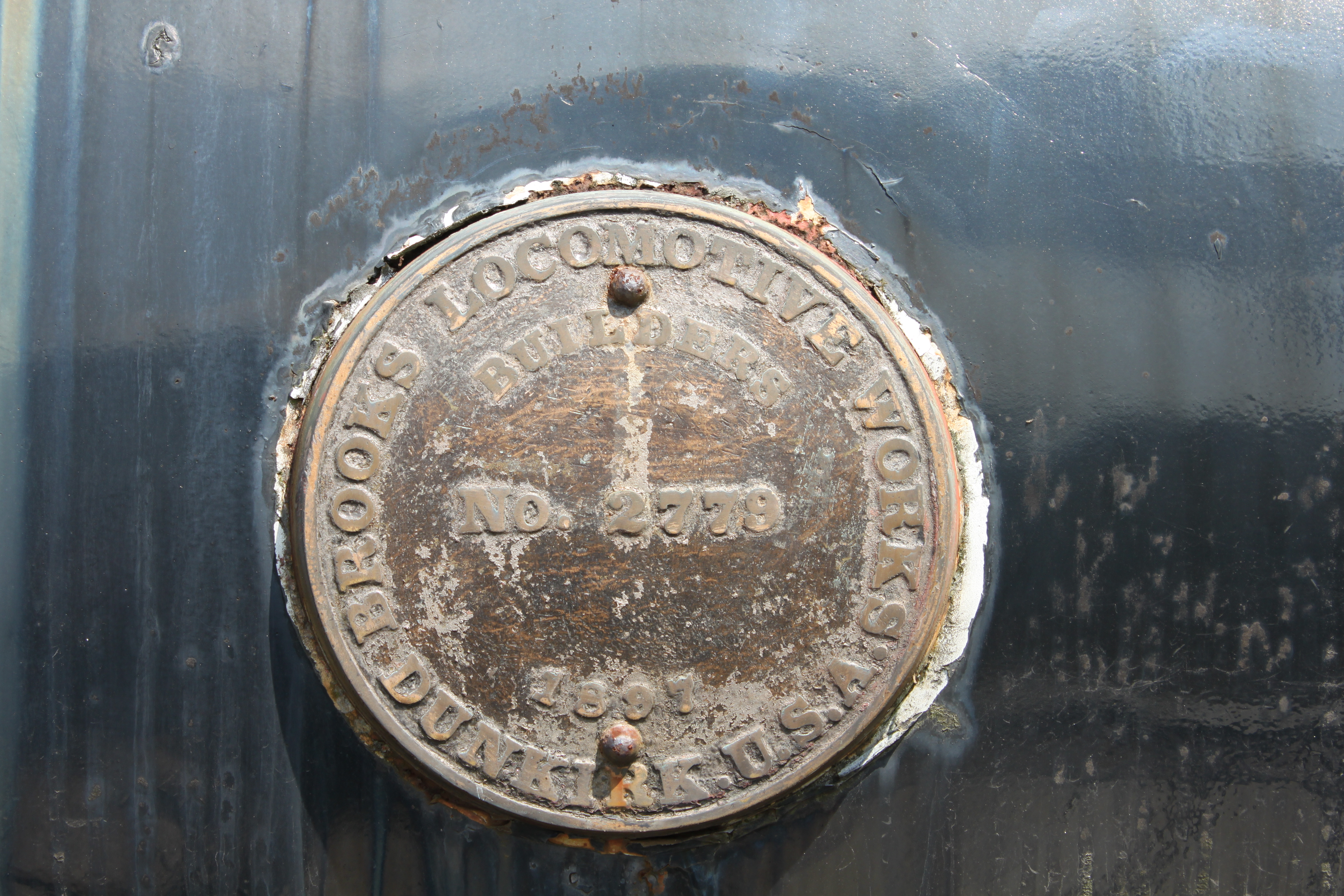 Builder's plate of Bisai Railway No.1 steam locomotive (Brooks)